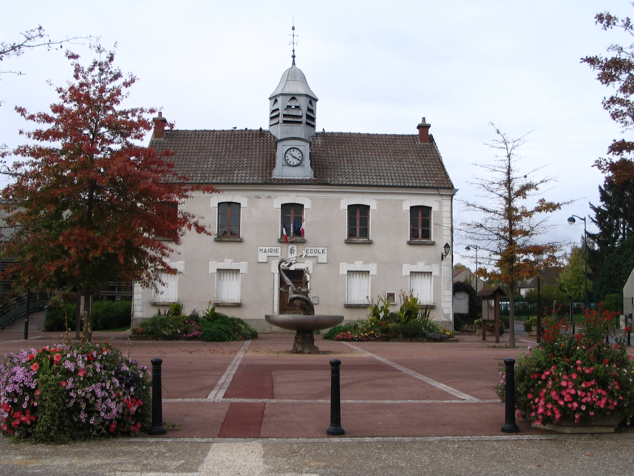 The town hall of Bailly-Romainvilliers, Seine-et-Marne, France.